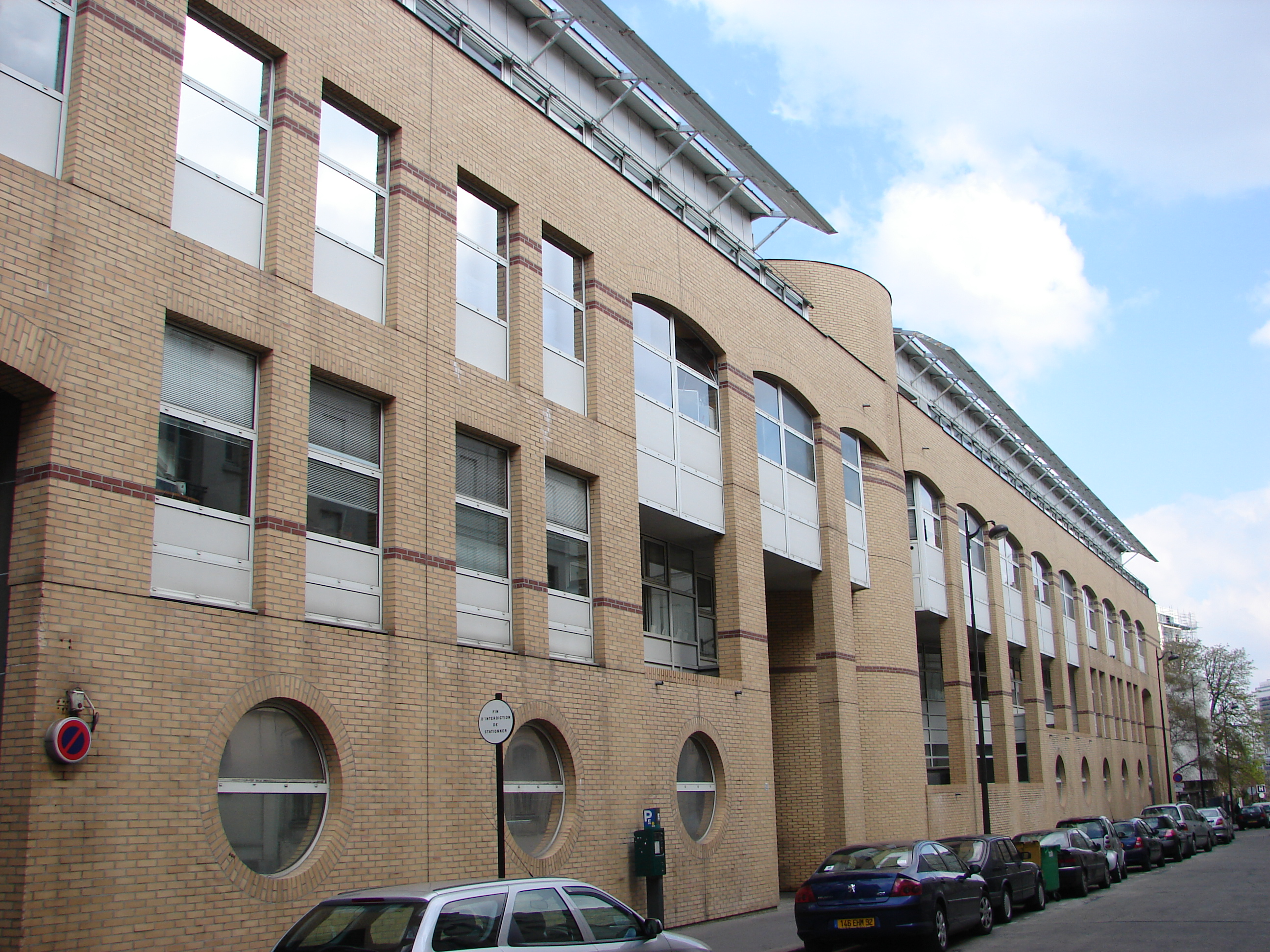 Cochin Institute